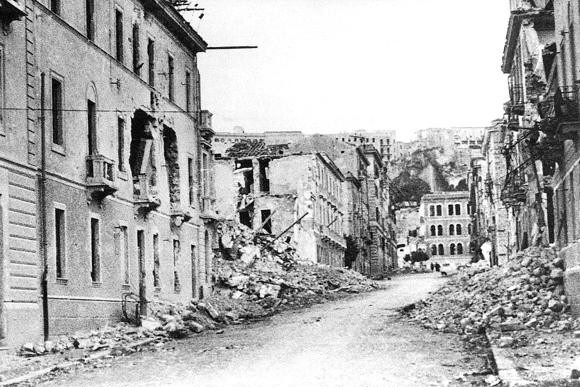 A bomb-damaged street in Cagliari, Italy, during World War II